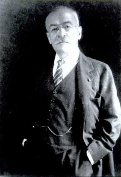 William Alfred Paine (1855-1929). Founded Paine & Webber (later Paine Webber) ca. 1920